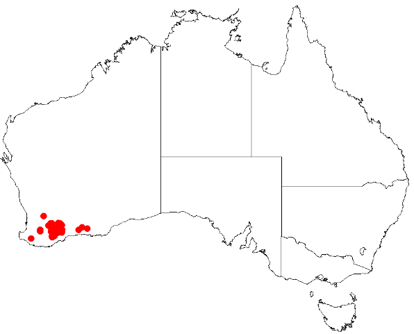 Desmocladus quiricanus Occurrence data downloaded from Australasian Virtual Herbarium on 24 January 2019 using